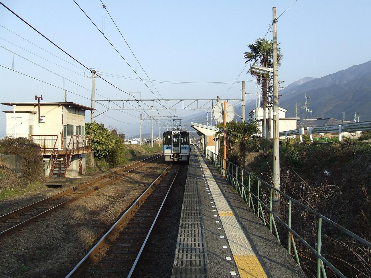 Sekikawa Station on Yosan Line